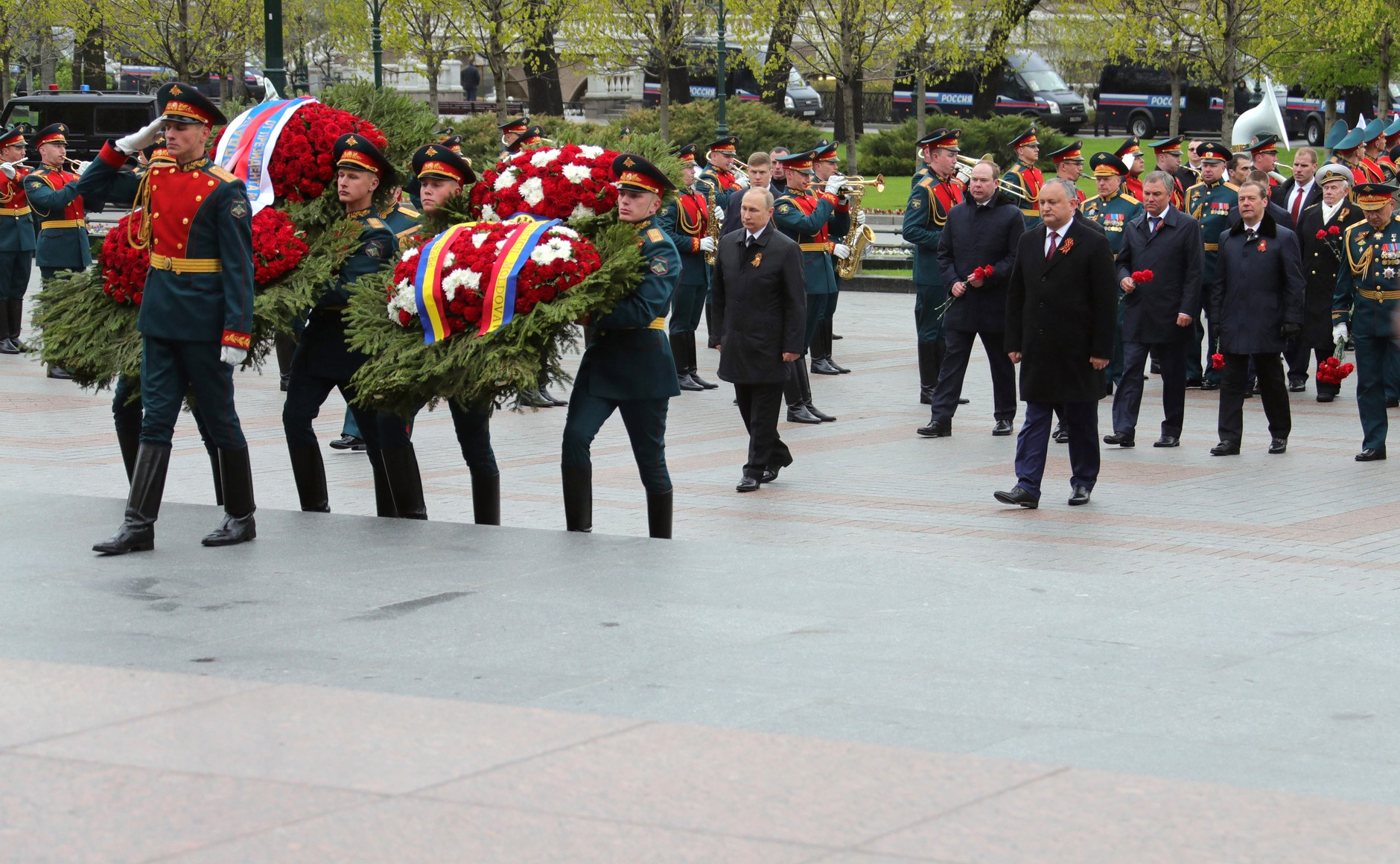 Laying wreath at the Tomb of the Unknown Soldier in Moscow 2017-05-09